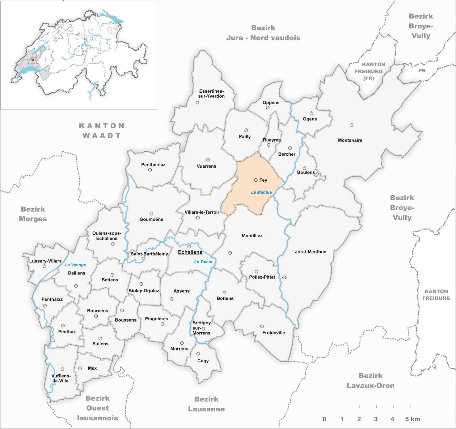 Municipality Fey